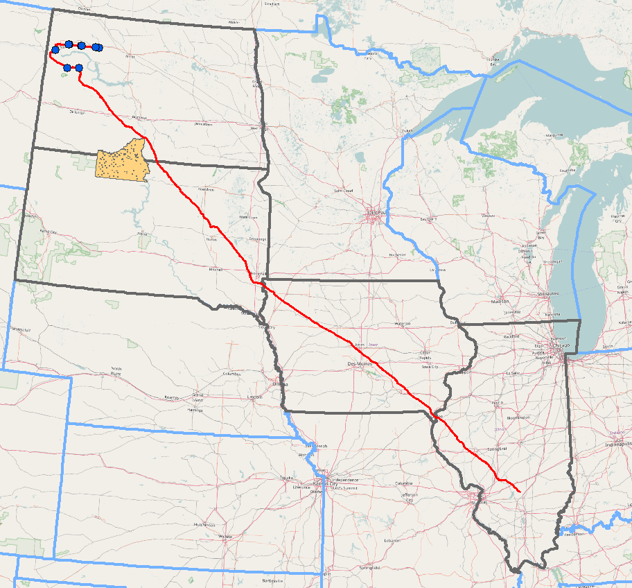 I created this map. You can see the full map and learn more about it here, with all the sources